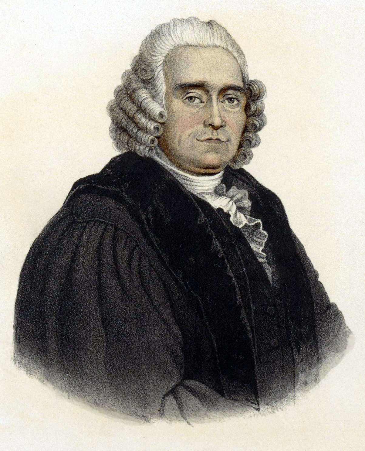 Gualtherus van Doeveren (1730-1783), Dutch physician